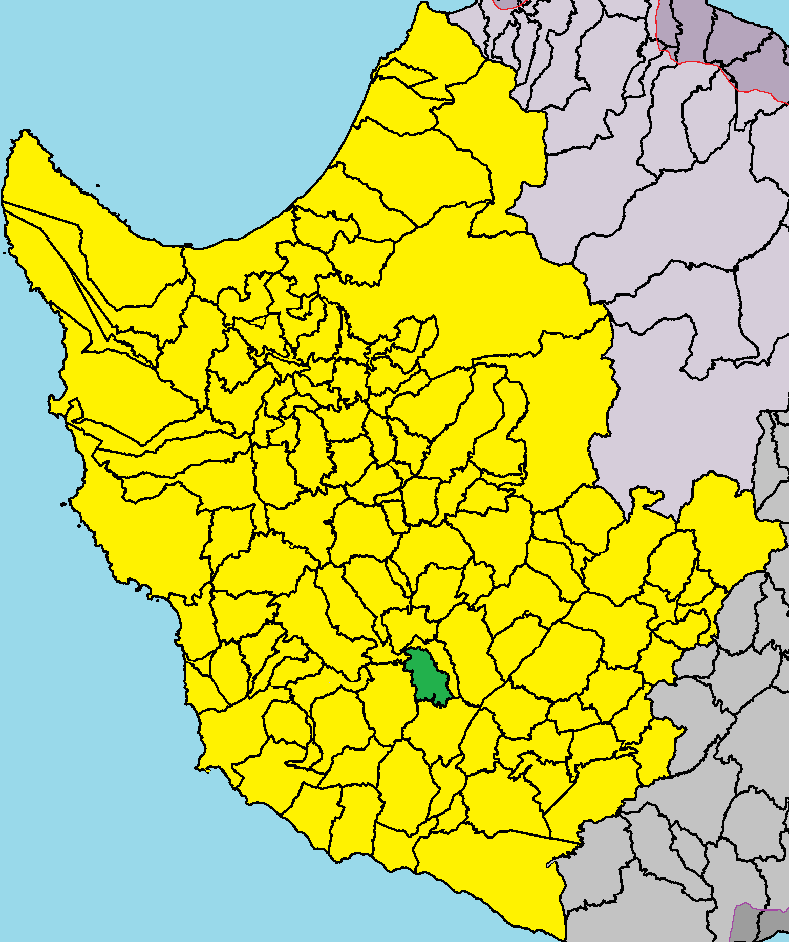 Axylou in Paphos District.